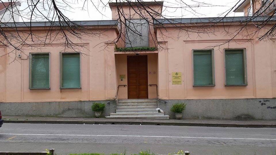 Biblioteca comunale